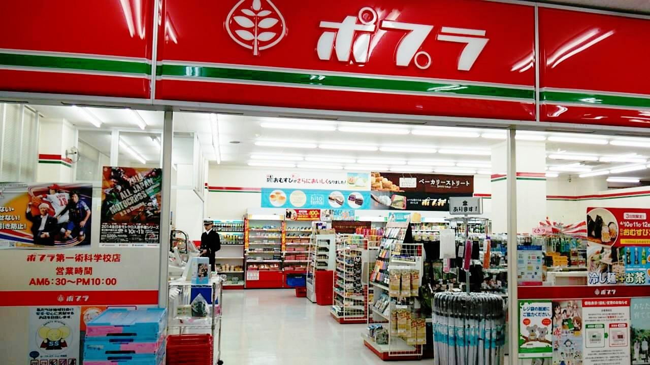 The Convenience Store "Poplar" JMSDF 1st Service School Store (Etajima City, Hiroshima Prefecture, Japan)